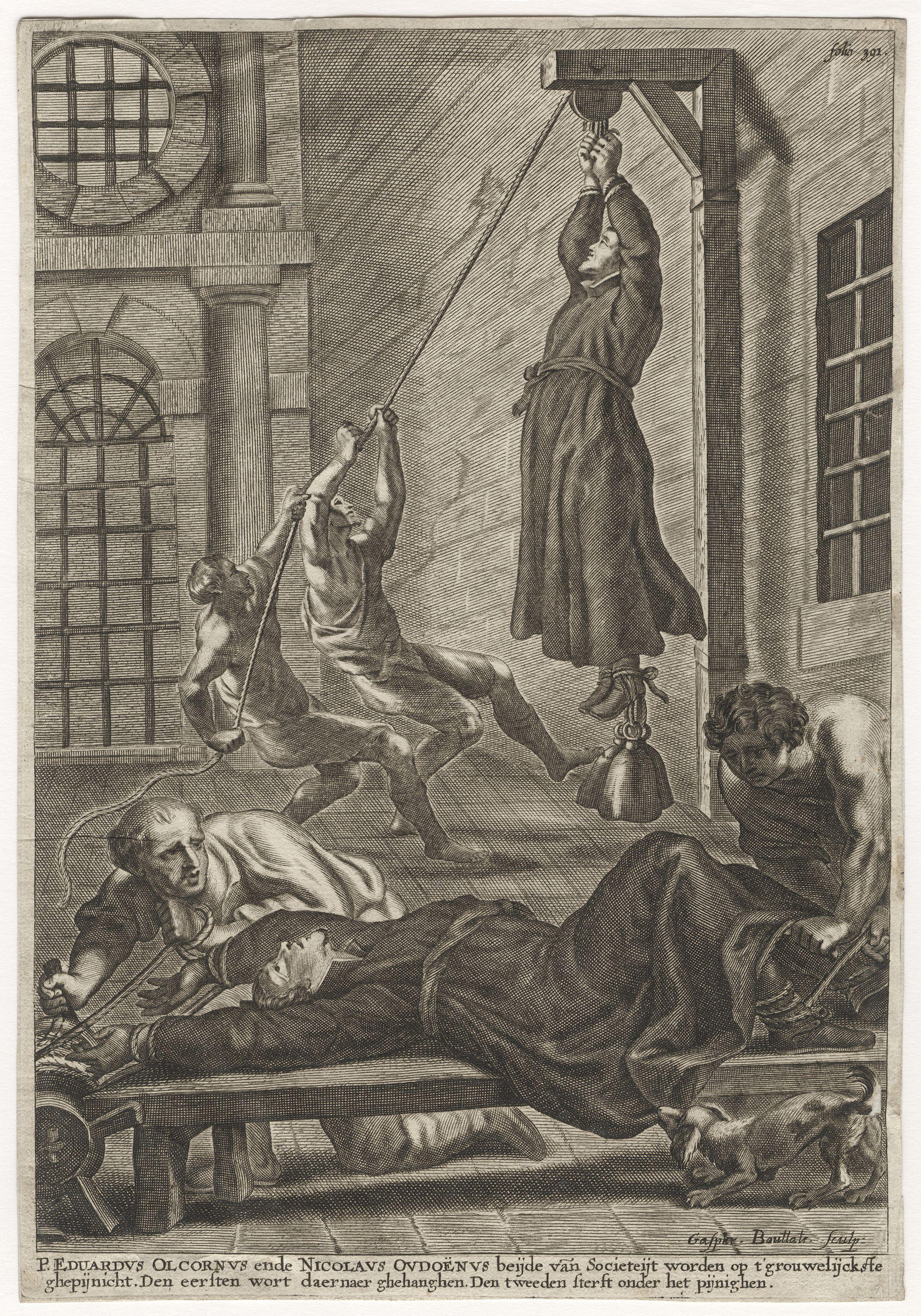 Edward Oldcorne; Nicholas Owen, by Gaspar Bouttats. All images in this batch have a known author, but have manually examined for strong evidence that the author was dead before 1939, such as approximate death dates, birth dates, floruit dates, and publication dates.